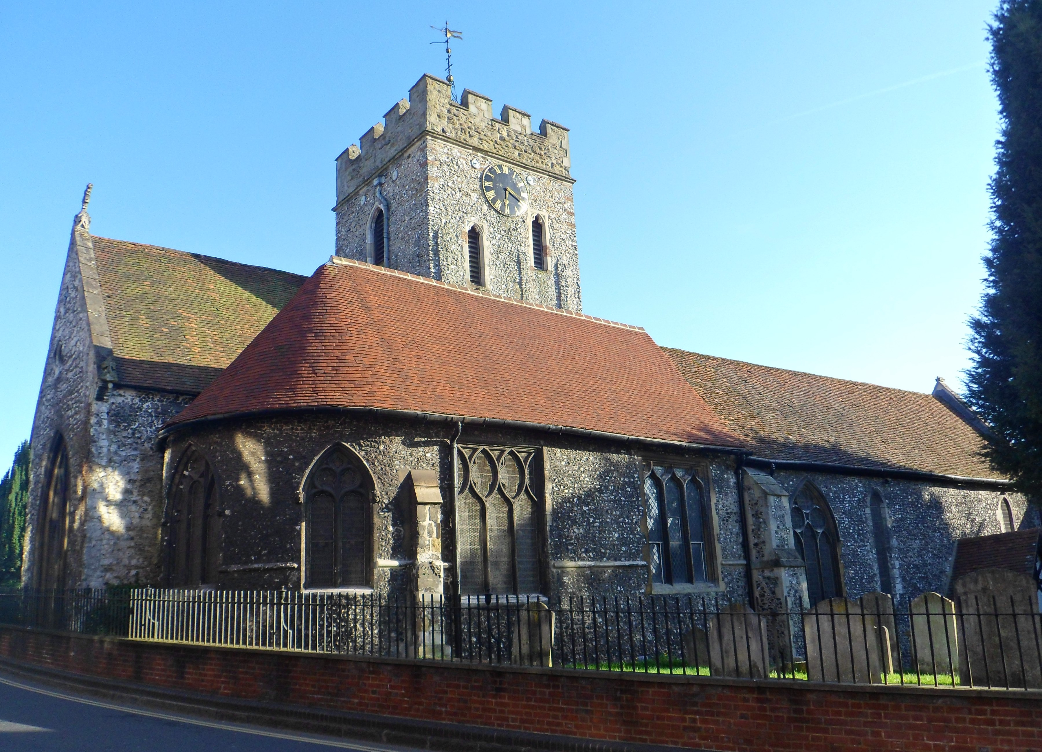 St Mary's Church, Quarry Street, Guildford, Borough of Guildford, Surrey, England. Now a joint Anglican and Methodist church.